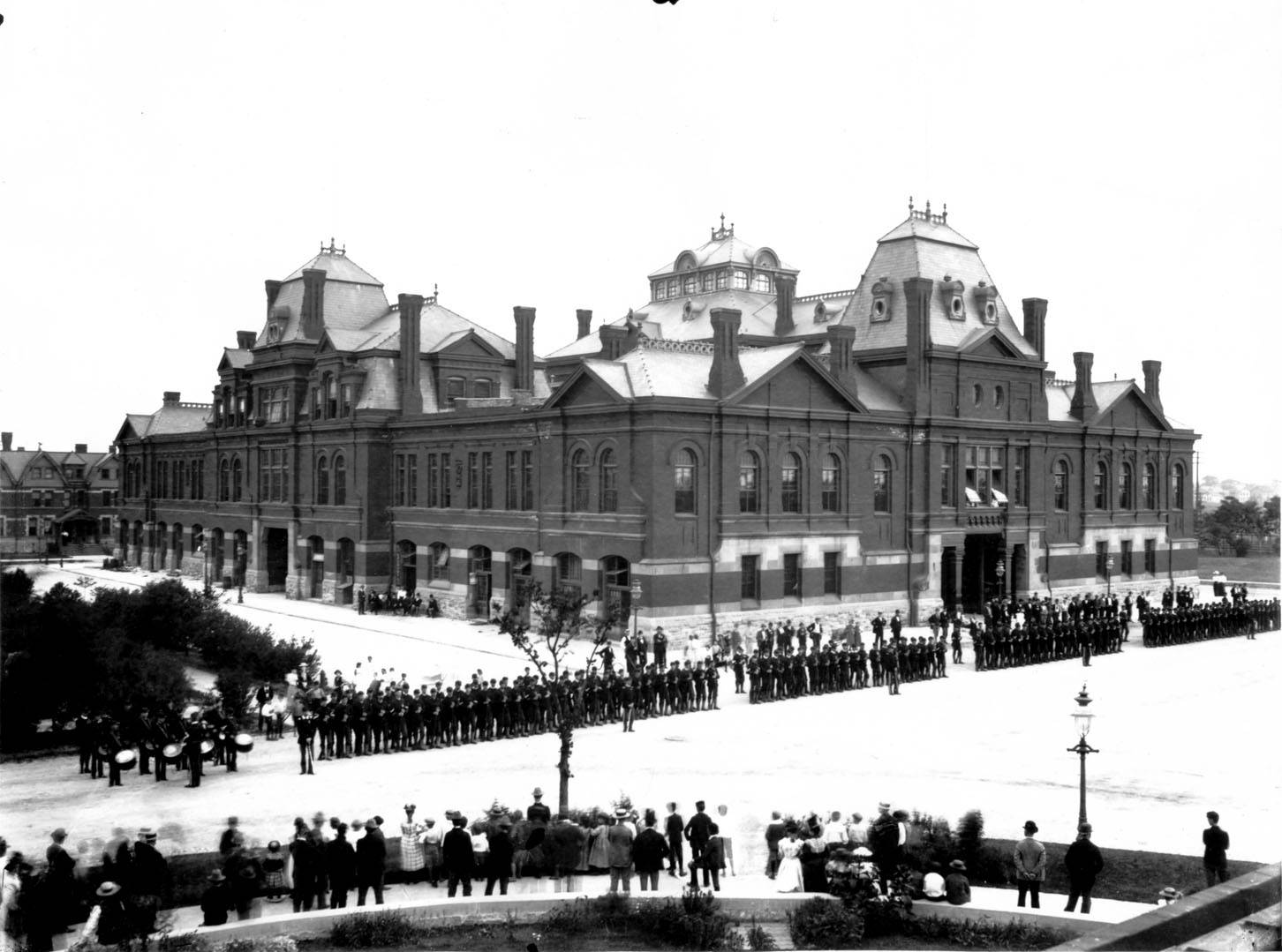 Pullman strikers outside Arcade Building in Pullman, Chicago. The Illinois National Guard can be seen guarding the building during the Pullman Railroad Strike in 1894.